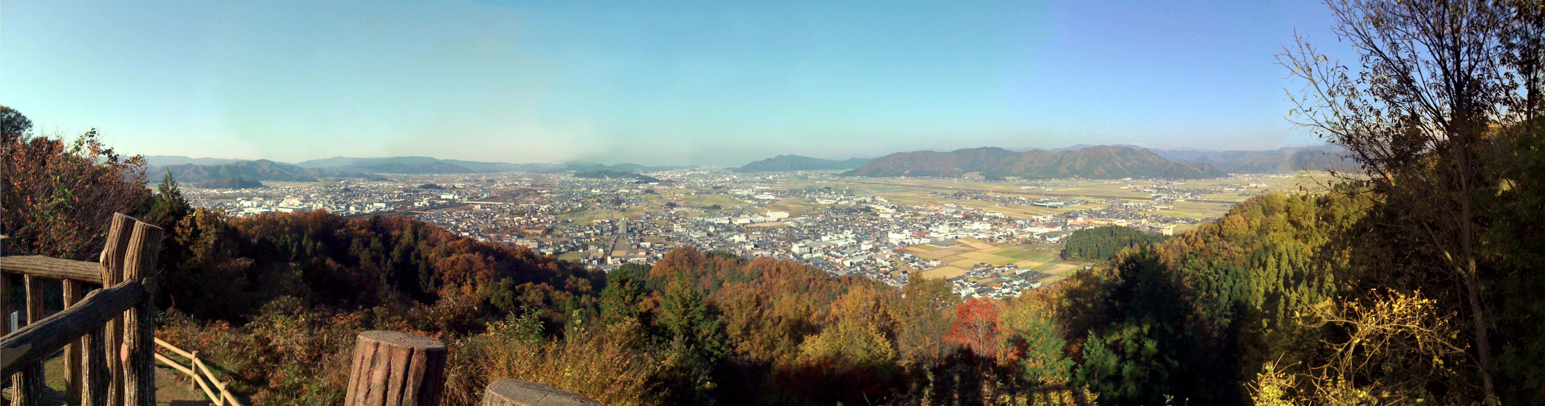 A semi-panoramic view of the northern part of Fukui prefecture, from the top of Mt. Murakuni in Echizen, Fukui. Taken with an iPhone 3G, 10 photos stiched together using GIMP